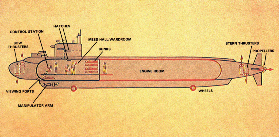 Drawing of the U.S. Navy submarine NR-1, in service from 1969 to 2008. NR-1's missions included search, object recovery, geological survey, oceanographic research, and installation and maintenance of underwater equipment.